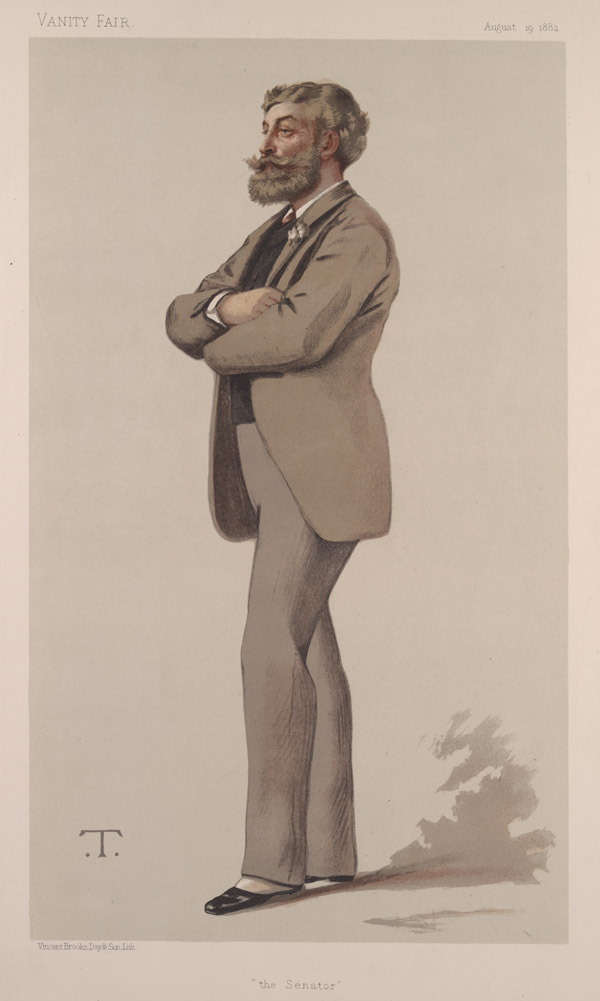 Statesmen No.408: Caricature of Cyril Flower MP. Caption reads: "The Senator"